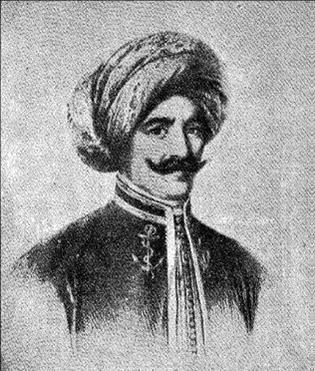 Egyptian Admiral Hassan Pasha of Alexandria (1790 - 1854)